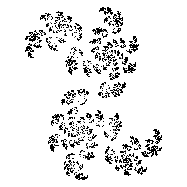 Julia set for c = 0.4 + 0.3i. Made with IIM